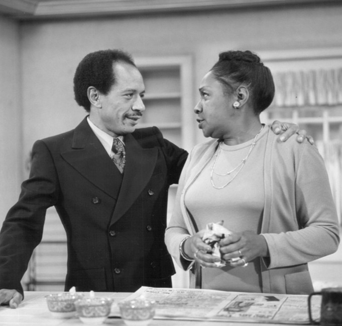 Publicity photo from All in the Family. Pictured are Sherman Helmsley (George Jefferson) and Isabel Sanford (Louise Jefferson) as they pack to move from Queens to Manhattan. This began the television series The Jeffersons.